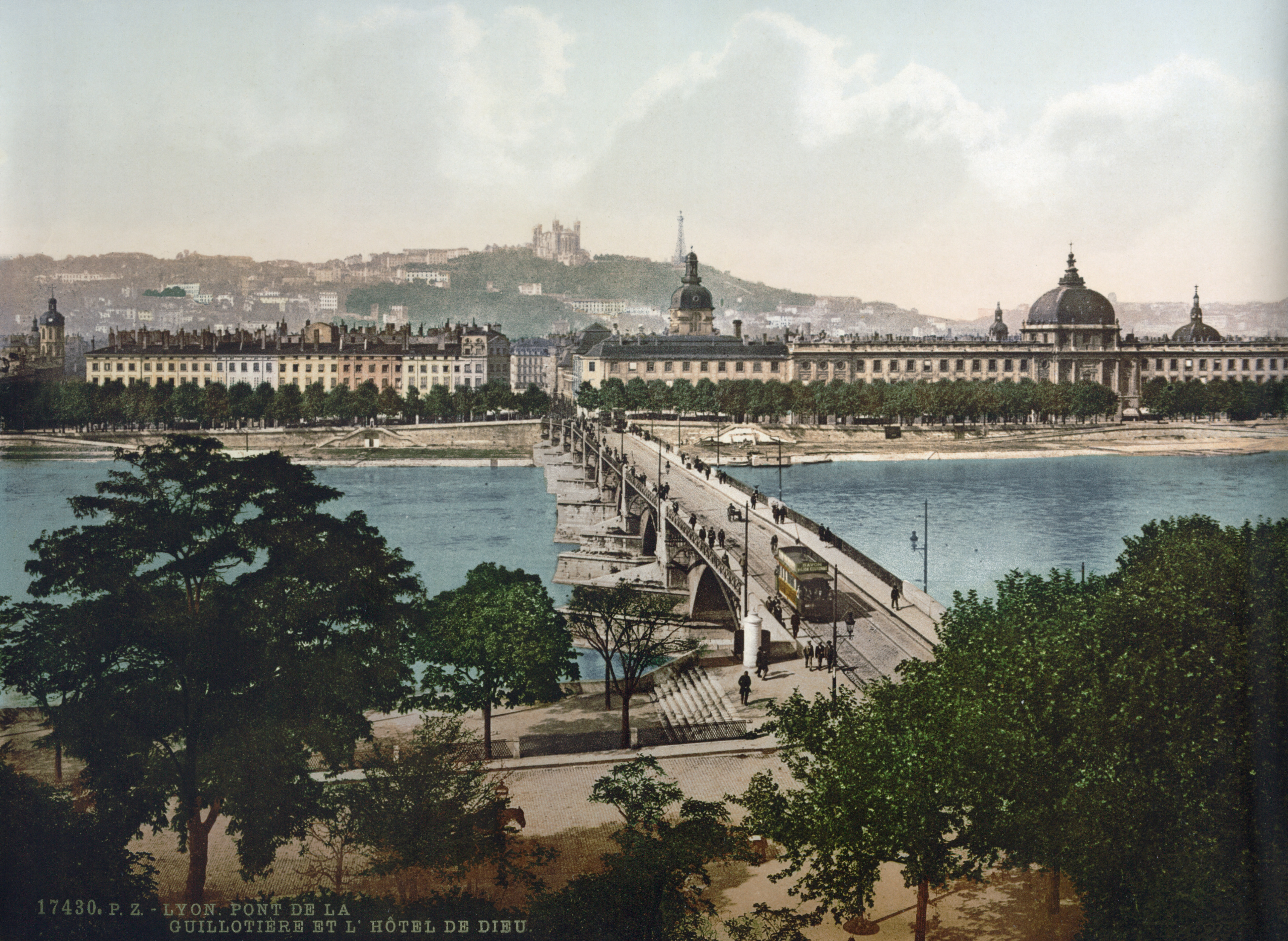 Bridge of the Guillotière and the Hotel de Dieu, Lyons, France